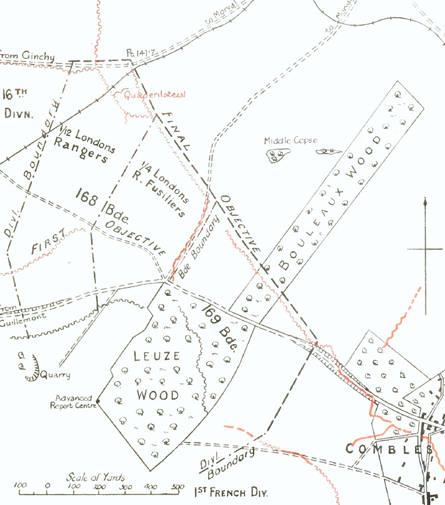 Diagram of 56th Division operations around Leuze Wood, September 1916